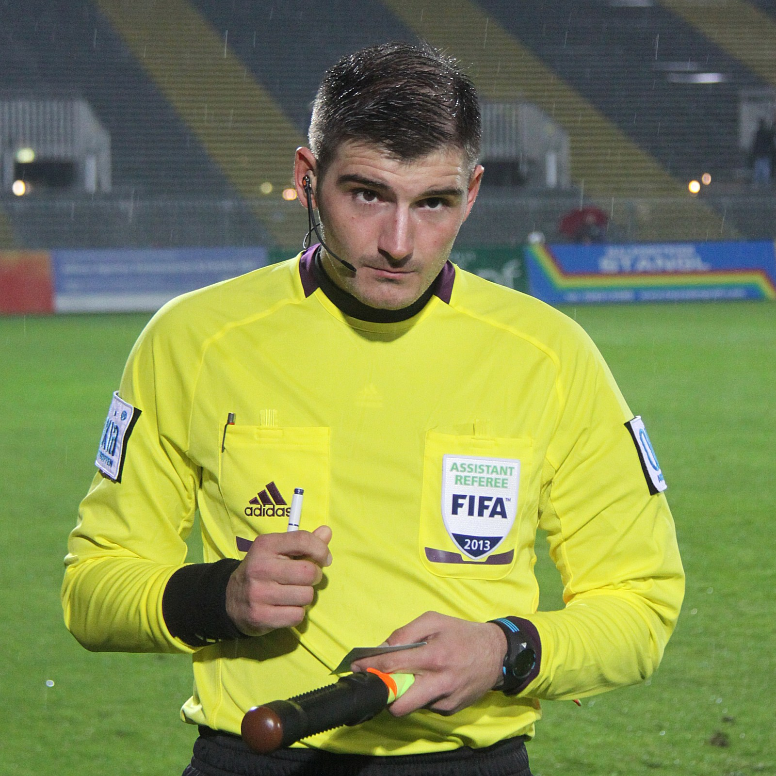 Austrian First League: SV Mattersburg vs. SC Austria Lustenau (2:2) at 2013-11-22 in the Pappelstadion of Mattersburg. – The photo shows assistent-refereeAndreas Staudinger.